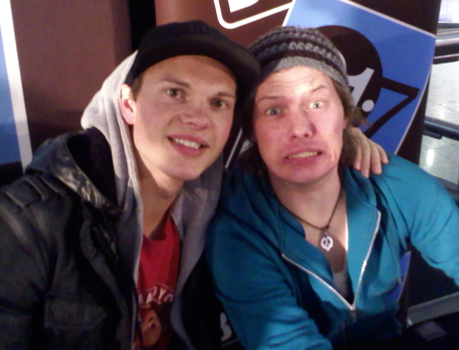 Alan Poettcker (left) and Alex Johnson of These Kids Wear Crowns at an autograph session in West Edmonton Mall.